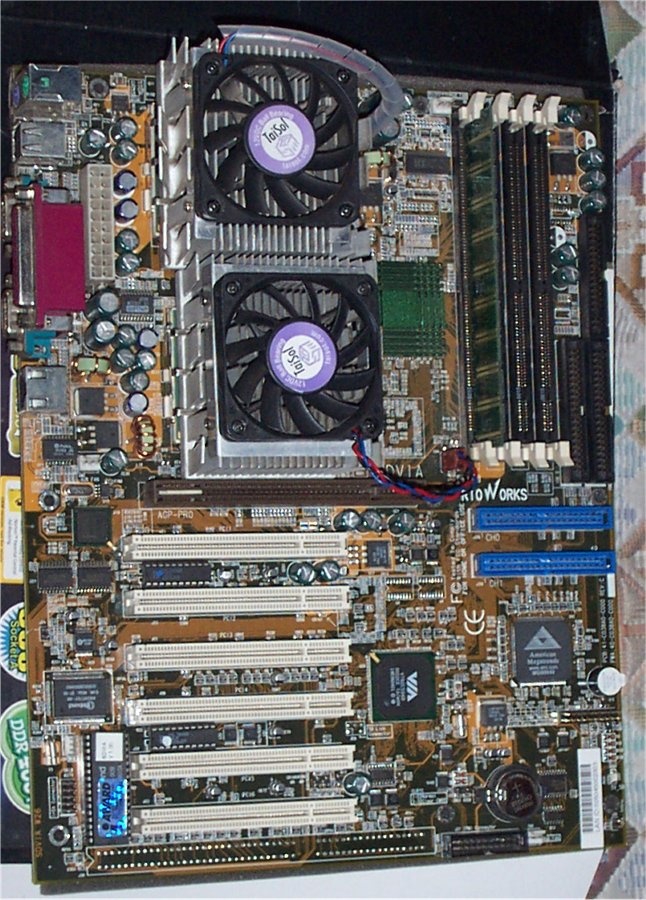 Dual processor PC motherboard. Image by Quique251